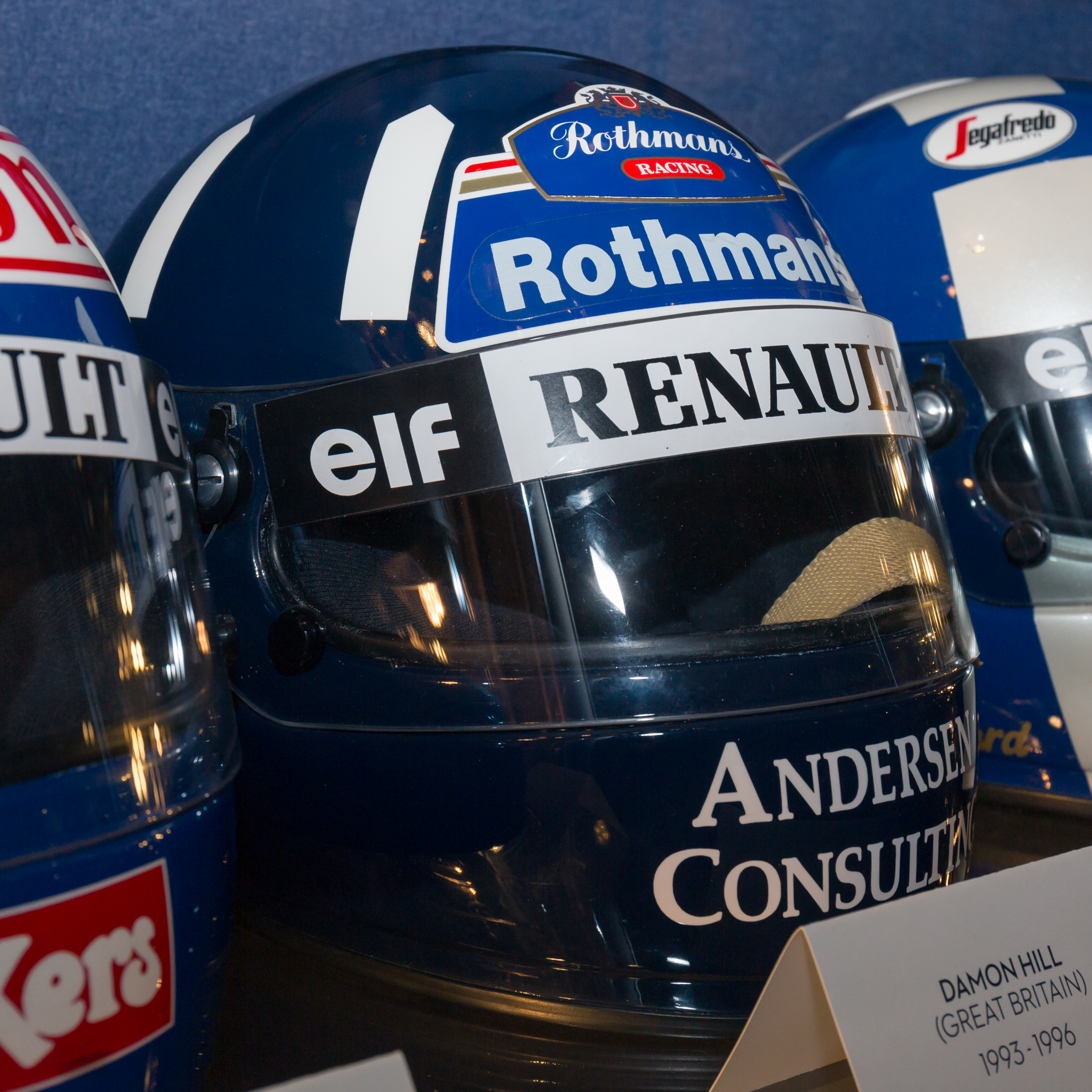 Williams Conference Centre (Grove): Helmet of Damon Hill in 1996.